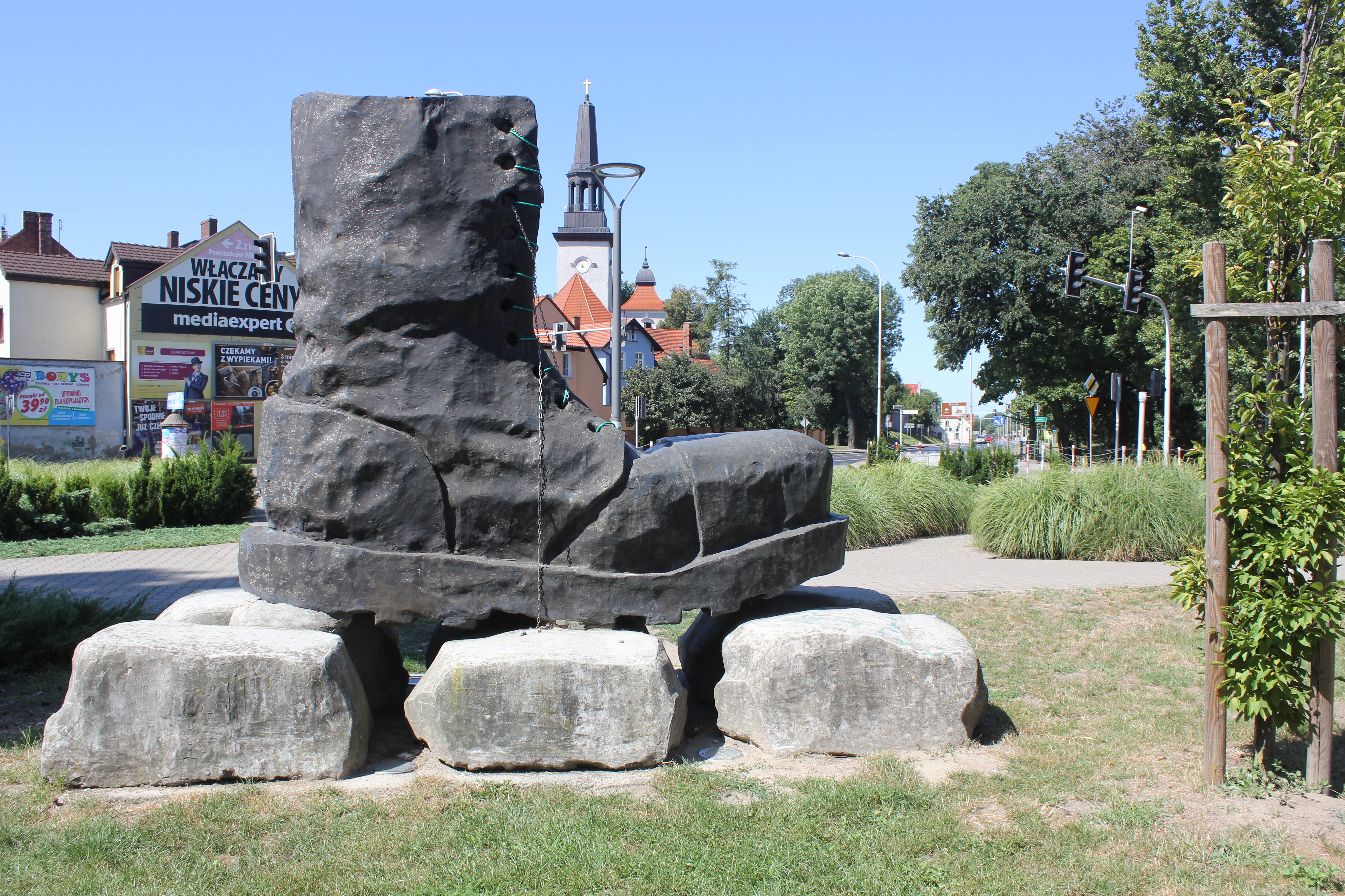 Jarocin - Boot Monument